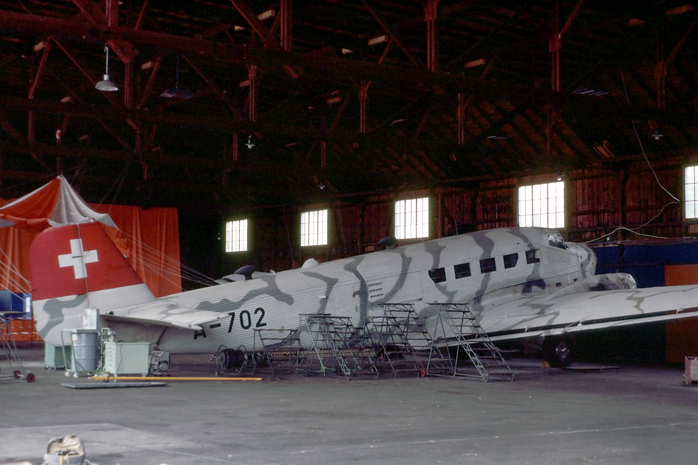 Dübendorf, 25 August 1984. The Swiss bought three Ju-52/3m's in Germany in 1939 and flew them until 1982. So they had already left the military when I saw all three of them at Dübendorf. The civil operator Ju-Air made pleasure flights. A-702 was HB-HOT, although the civil registration is not visible here. A-702 had received this 'winter camouflage' for the film Where Eagles Dare in 1968.